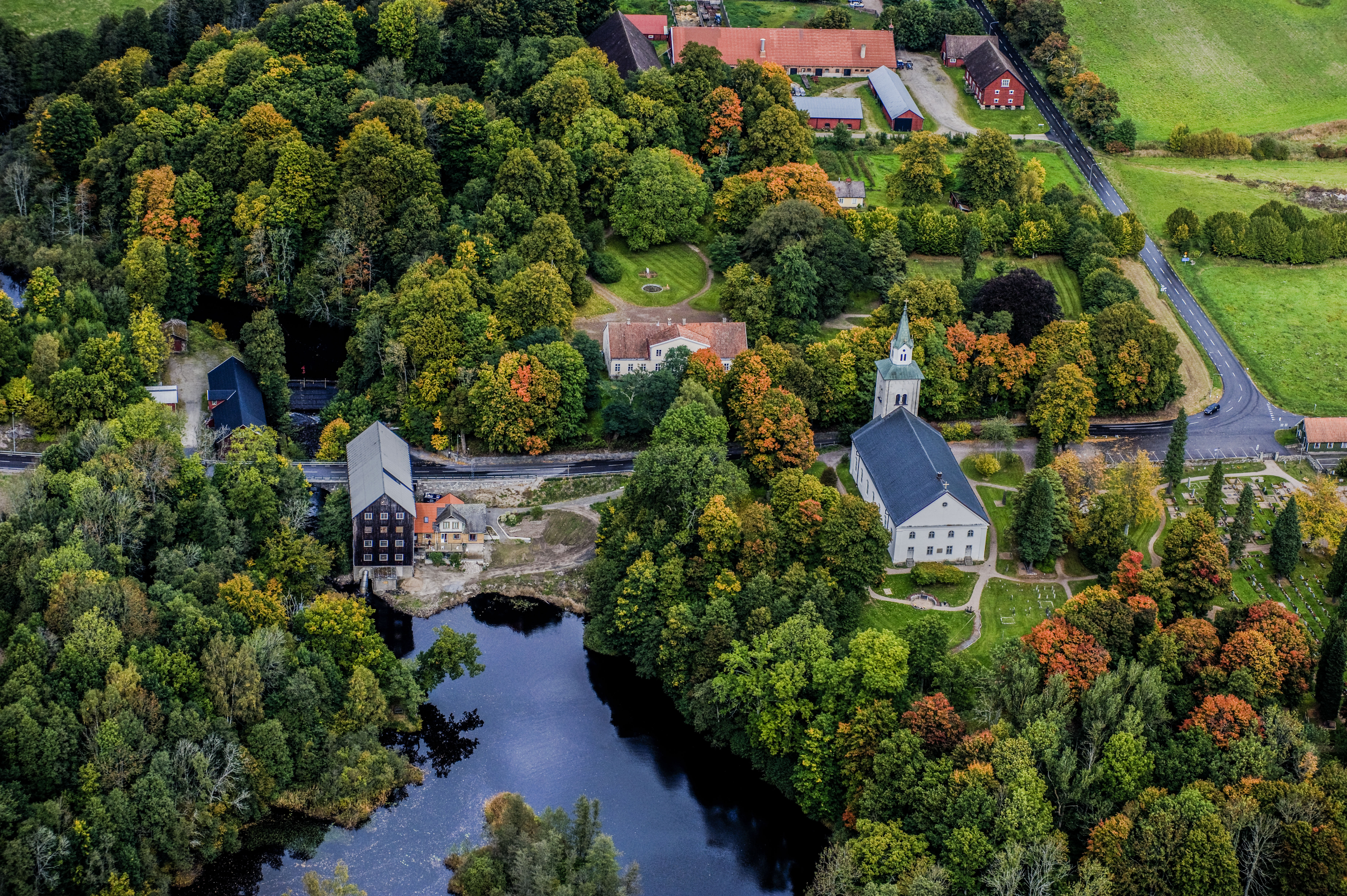 Augerums Church from the air